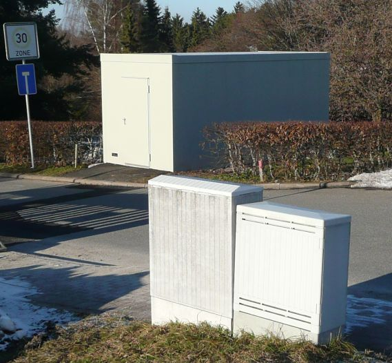 Outdoor DSLAM